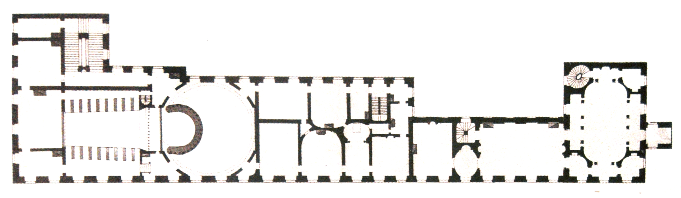 Georg Friedrich Veldten. Design of the Great Hermitage's first floor plan. 1777